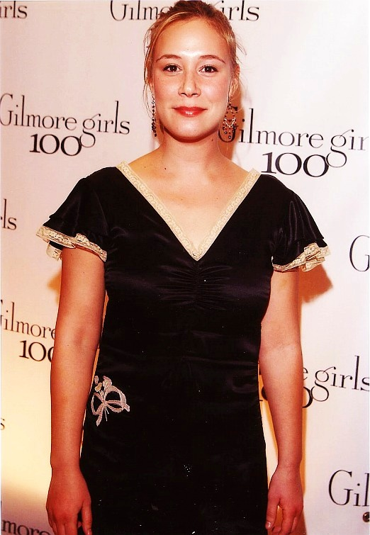 Liza Weil at the 100th Episode Celebration Party for "Gilmore Girls"